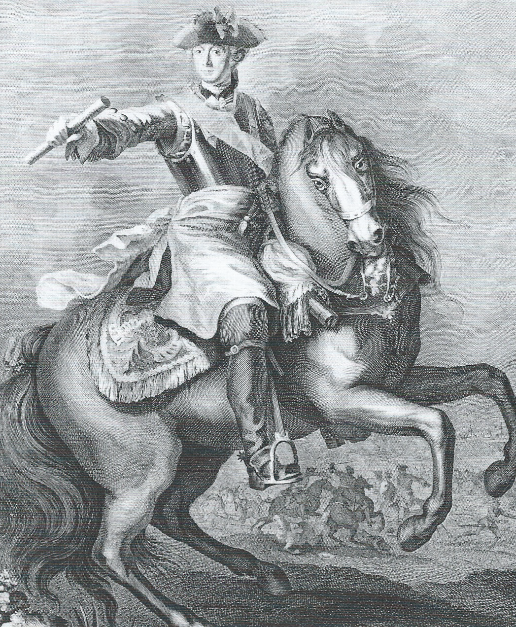 Victor-François, 2nd Duc de Broglie